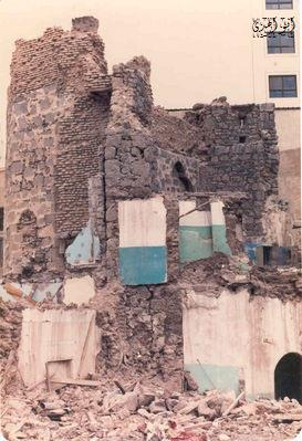 Abu Ayyub al-Ansari house